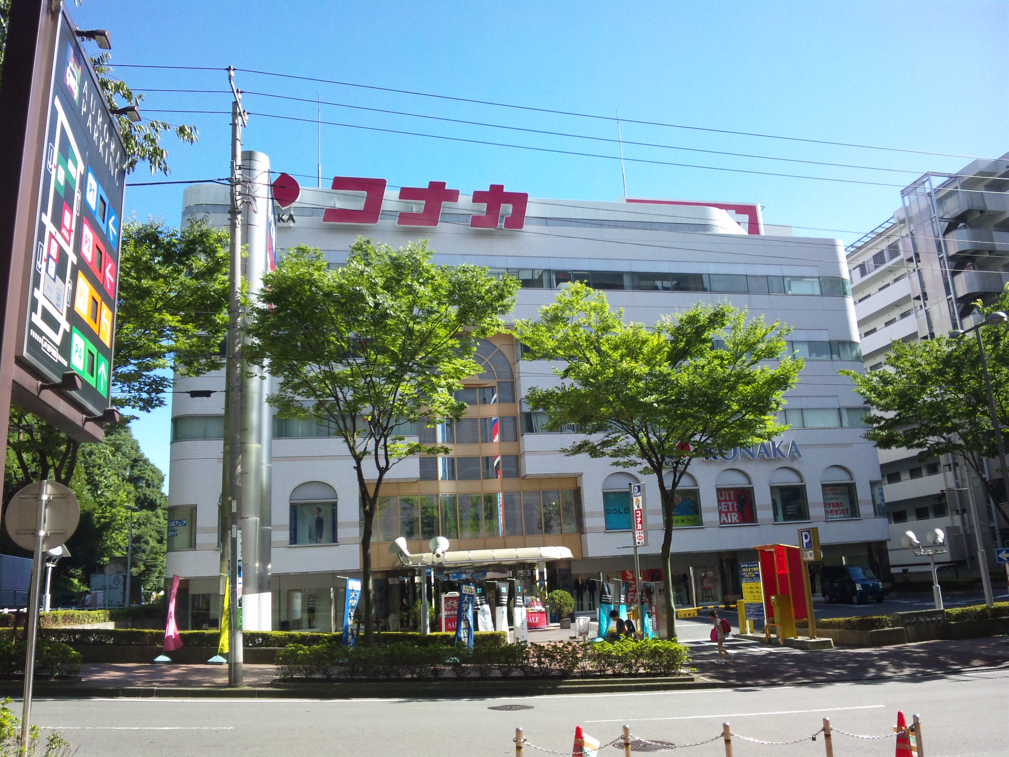 KONAKA HONSYA YOKOHAMA